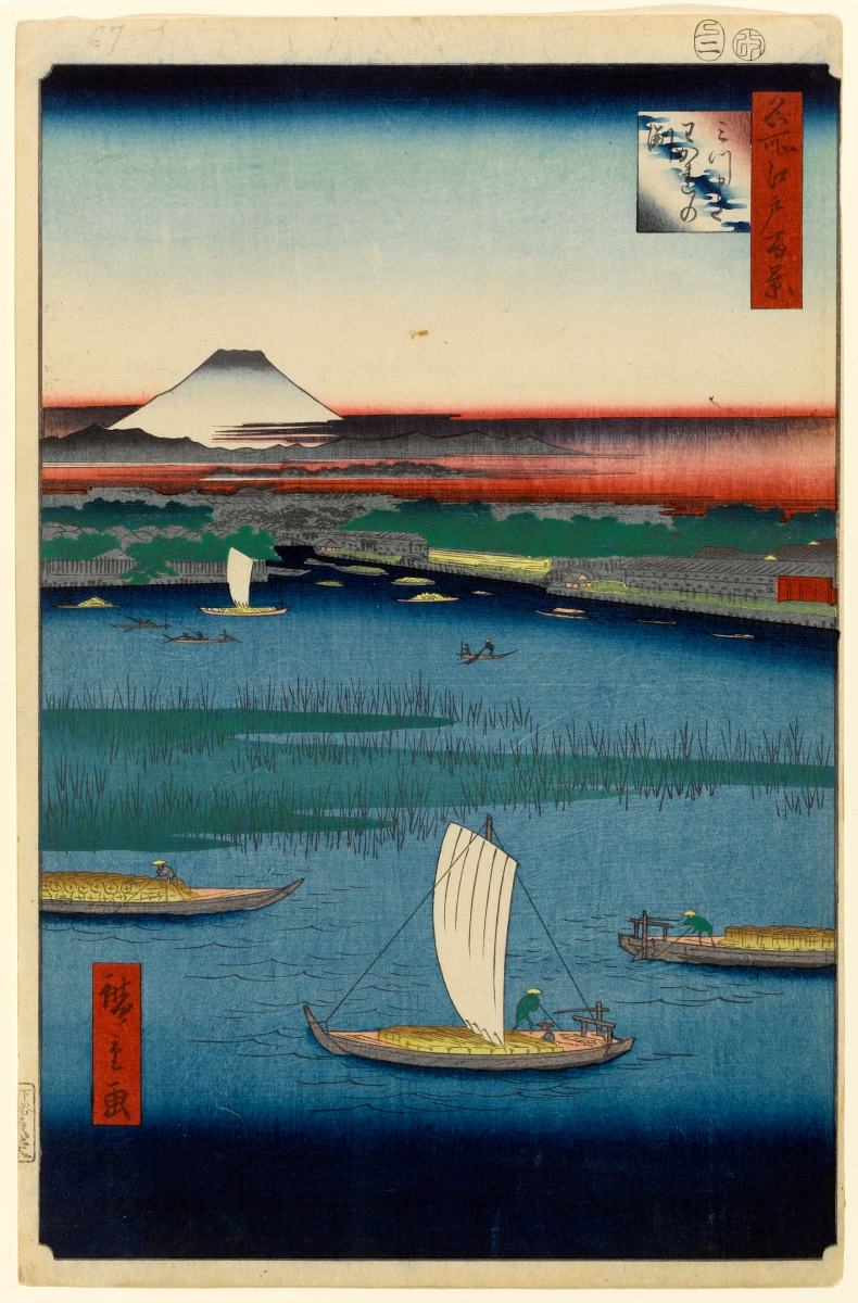 Part of the series One Hundred Famous Views of Edo, no. 057, part 2: Summer.